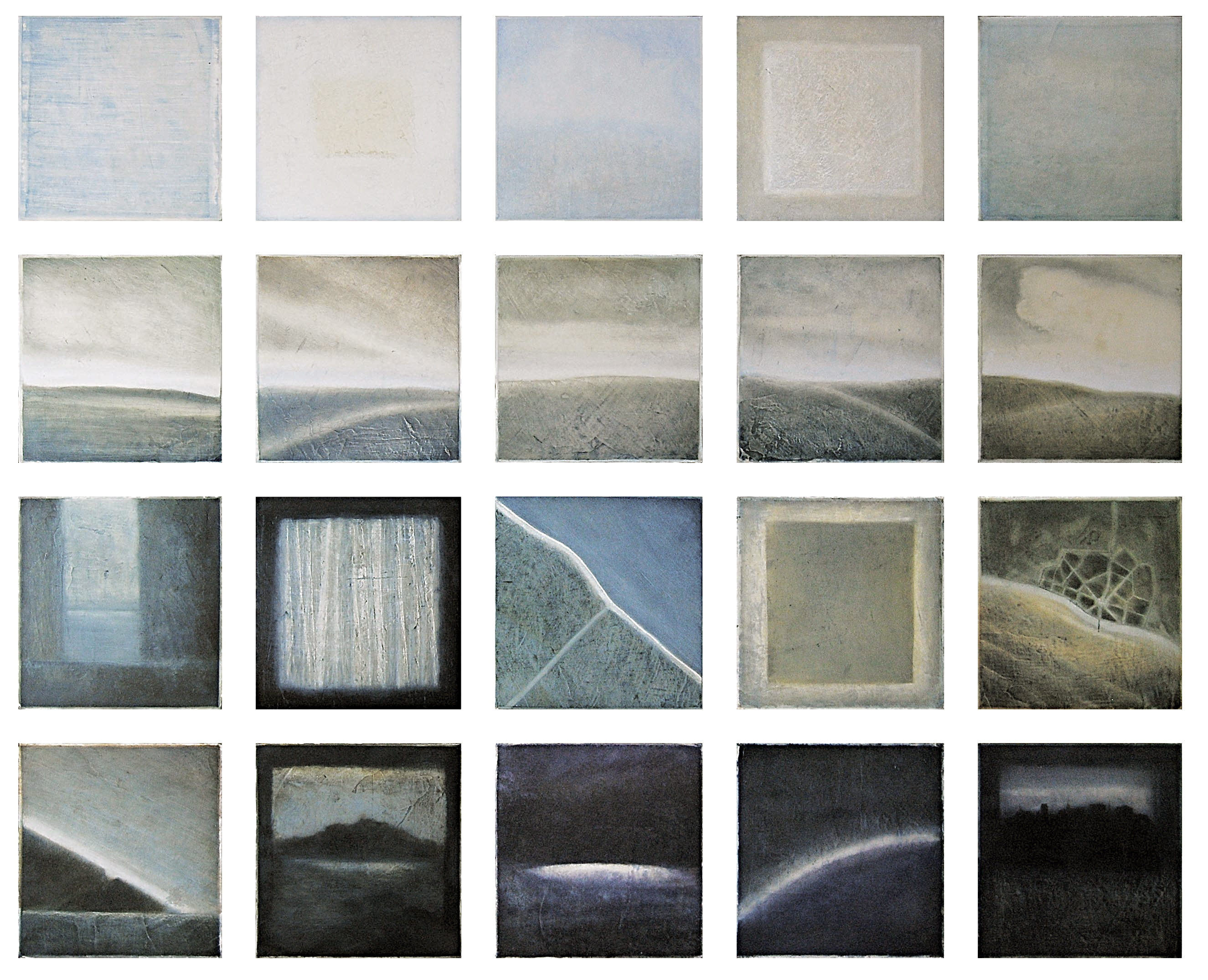 Spreng, Delicate balance, Painting 24 oil on canvas installation 10x01 each